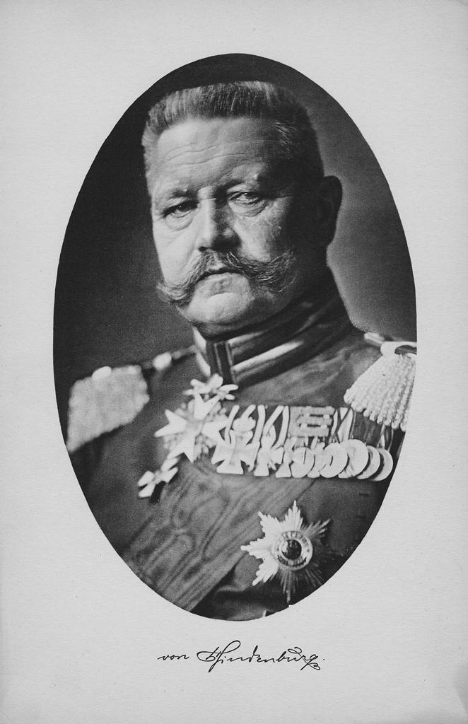 A 1914 photograph of Field Marshal Paul von Hindenburg